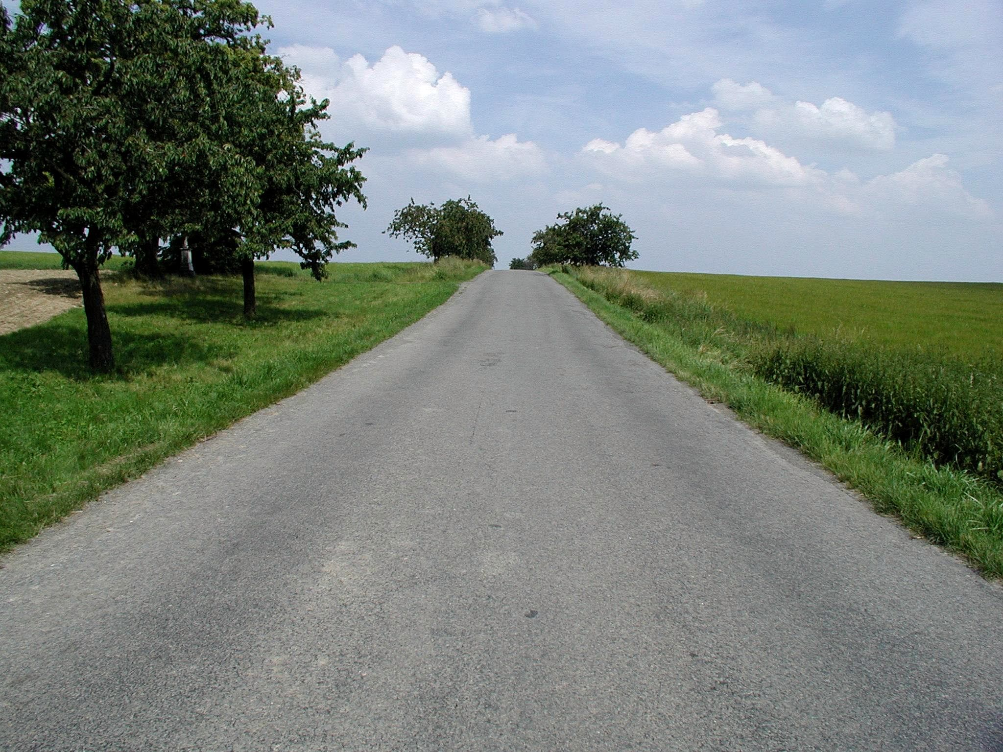 Image title: Long trip Image from Public domain images website